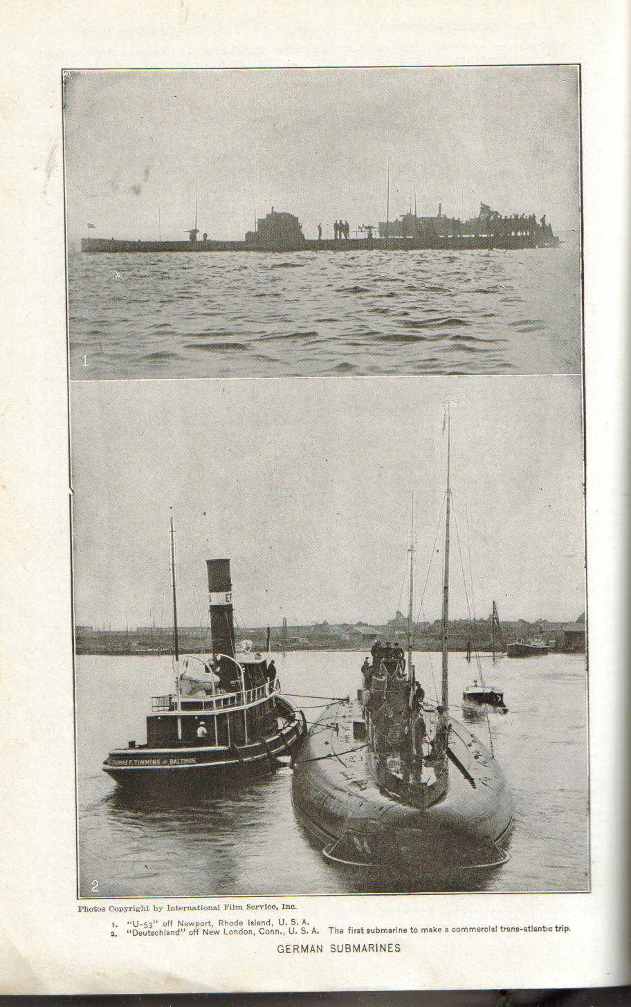 German submarine SM U-53 at top; German commerce submarine Deutschland at bottom, with alongside a tugboat, the Thomas F. Timmins of Baltimore.